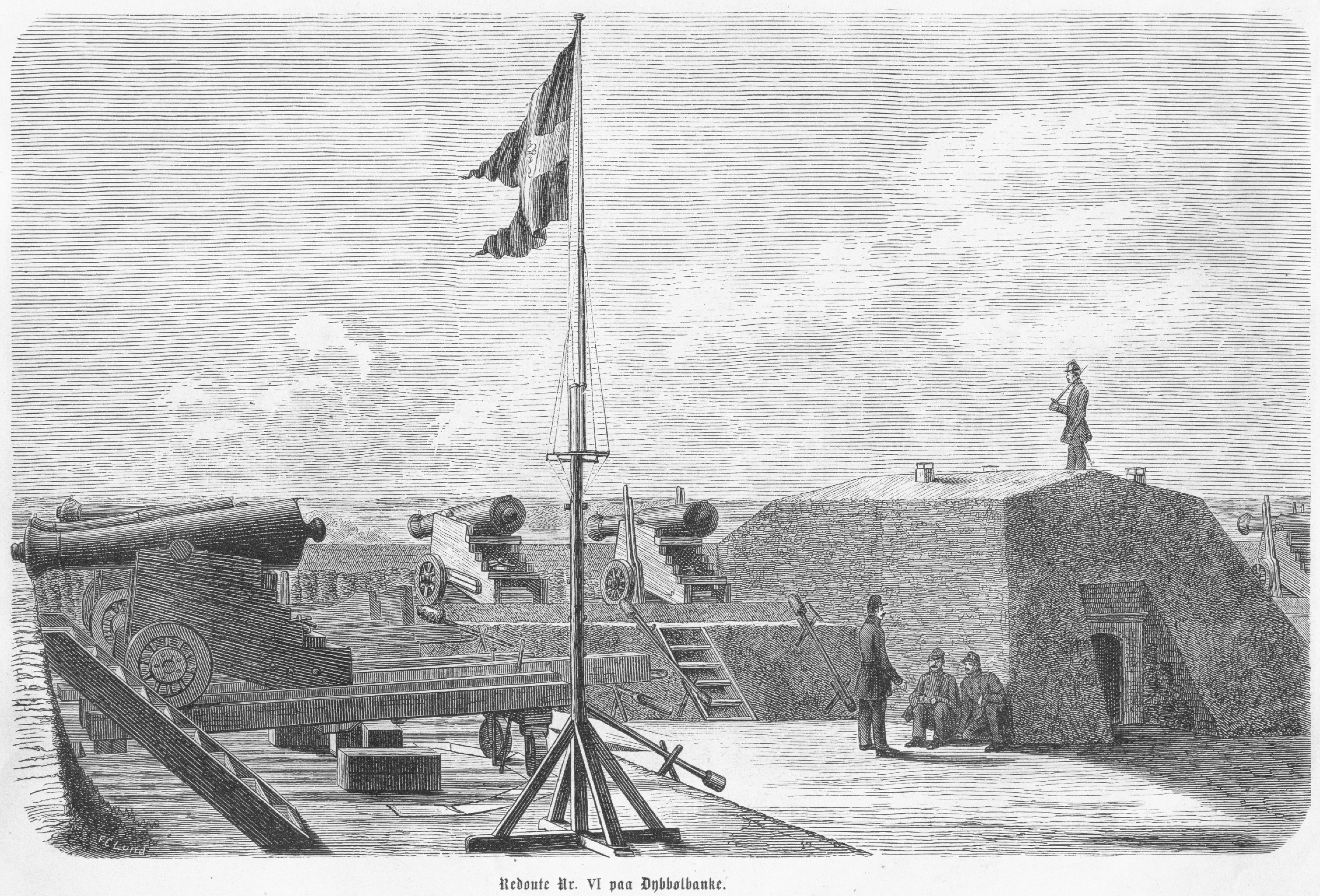 Redoubt No. VI on Dybbøl Hill. Contemporary illustration of the 1864 German-Danish War.